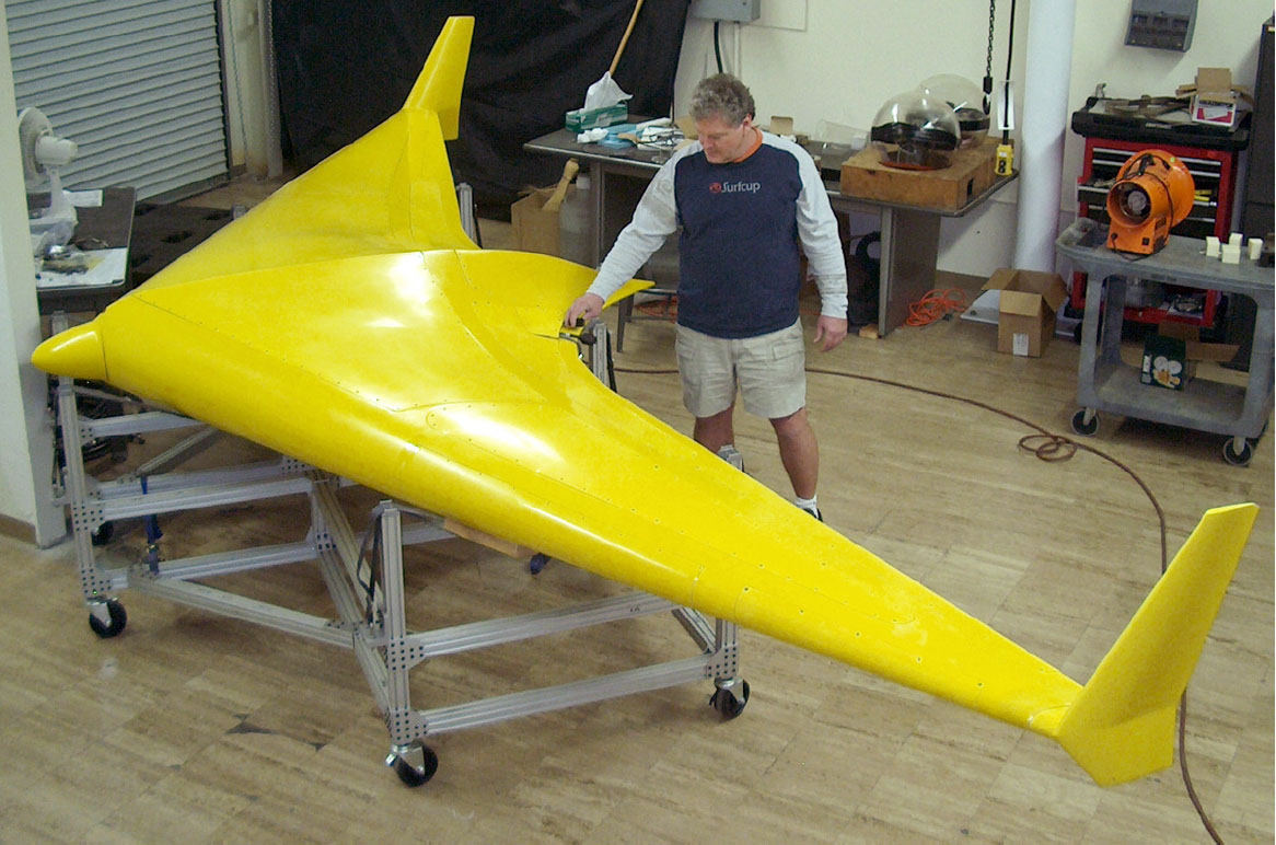 Pictured is the XRay1, a Liberdade class underwater glider which is an autonomous underwater glider vehicle originally developed by research institutions and the US Navy Office of Naval Research to track diesel powered submarines. They are now used to study marine mammals.